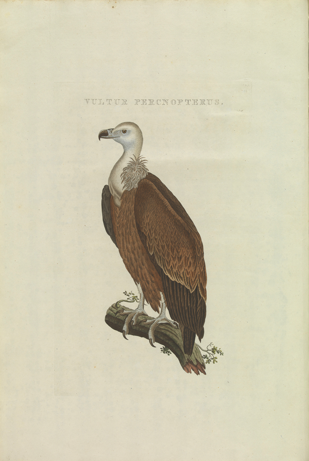 Plate 201 from the Nederlandsche vogelen by Nozeman and Sepp.